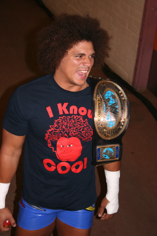 one of my favourites used on the website online world of wrestling for his profile pagehere.